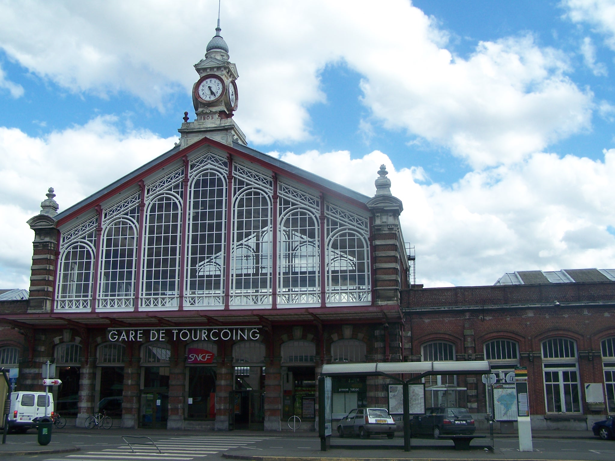 The façade of Tourcoing railway station in Nord, France.